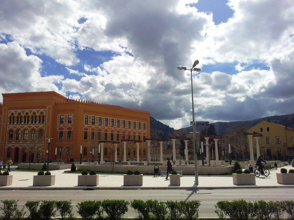 Spanish Square in Mostar